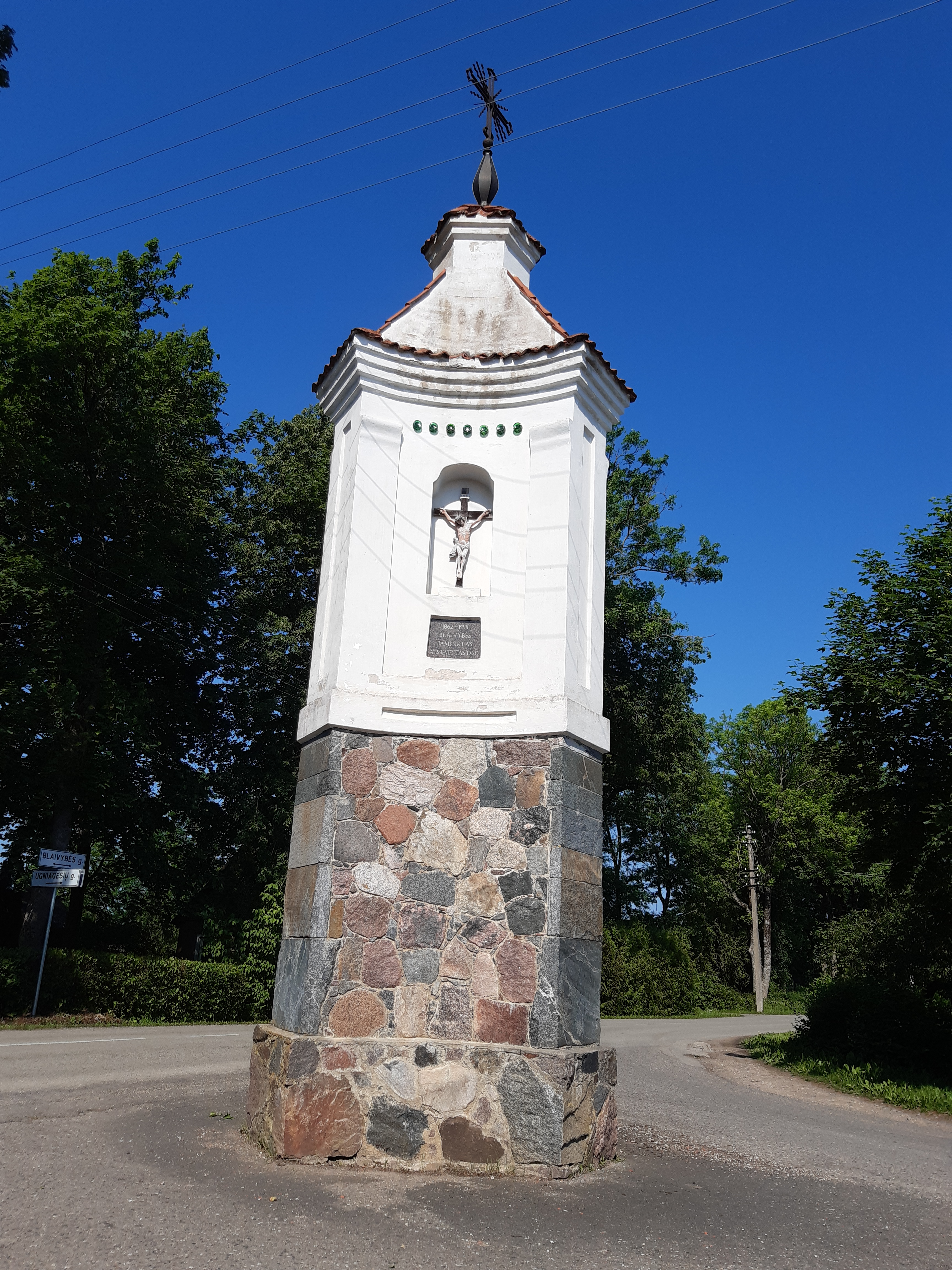 Monument to Temperance movement in Dailiūnai, Kupiškis District, Lithuania, 1862